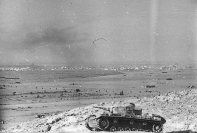 Panzer Mk III on the 1st escarpment above Mersa Matruh.